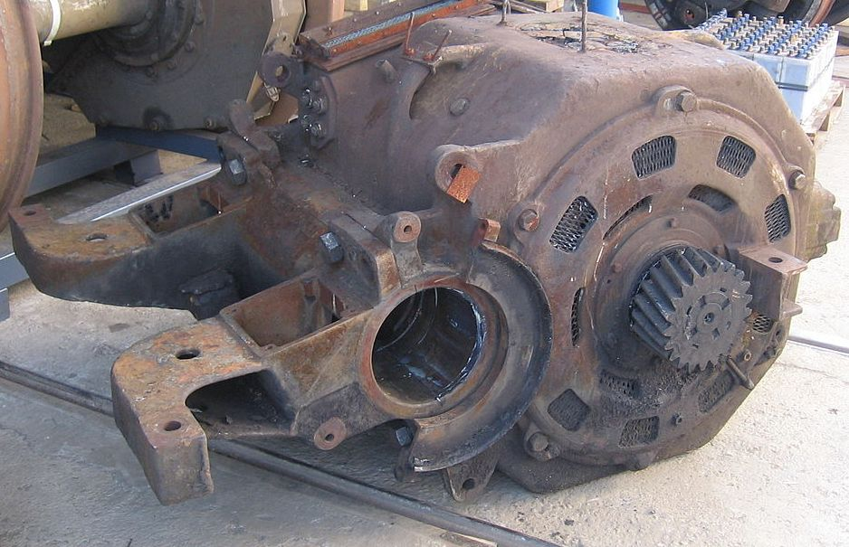 ČD Classes 181, 182 - traction motor